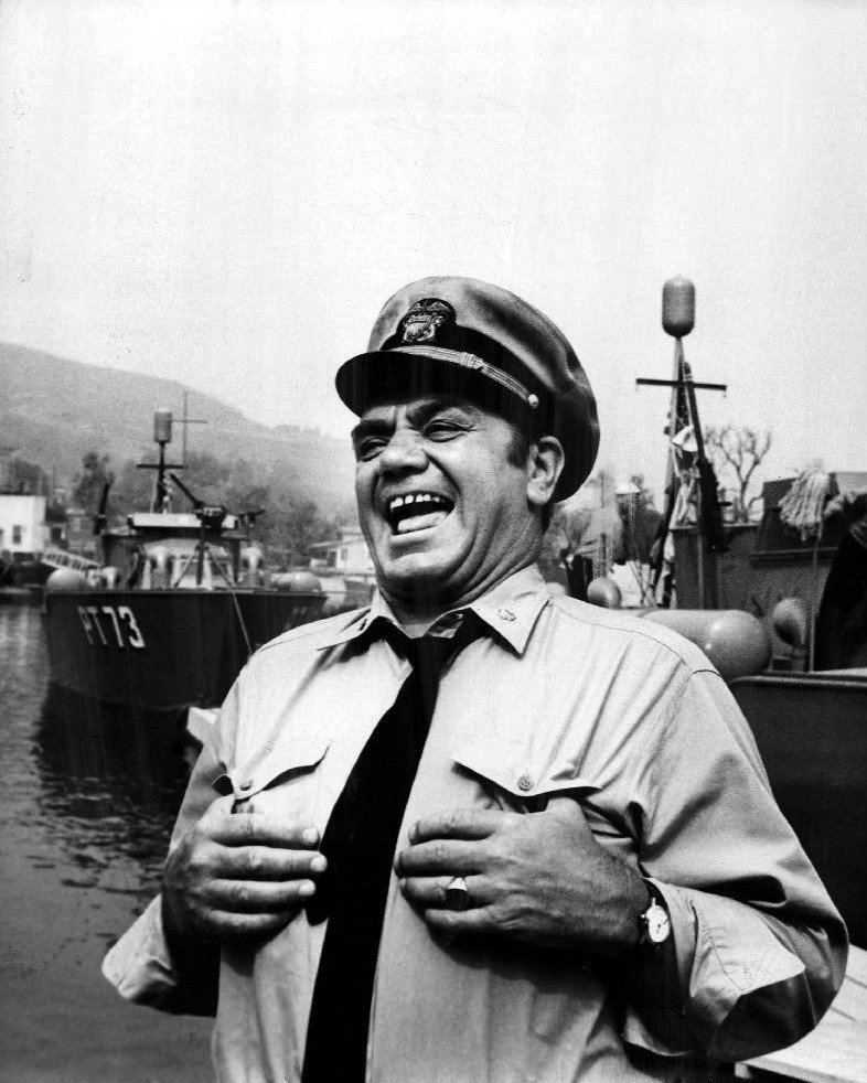 Photo of Ernest Borngine as Commander Quentin McHale from the television program McHale's Navy.